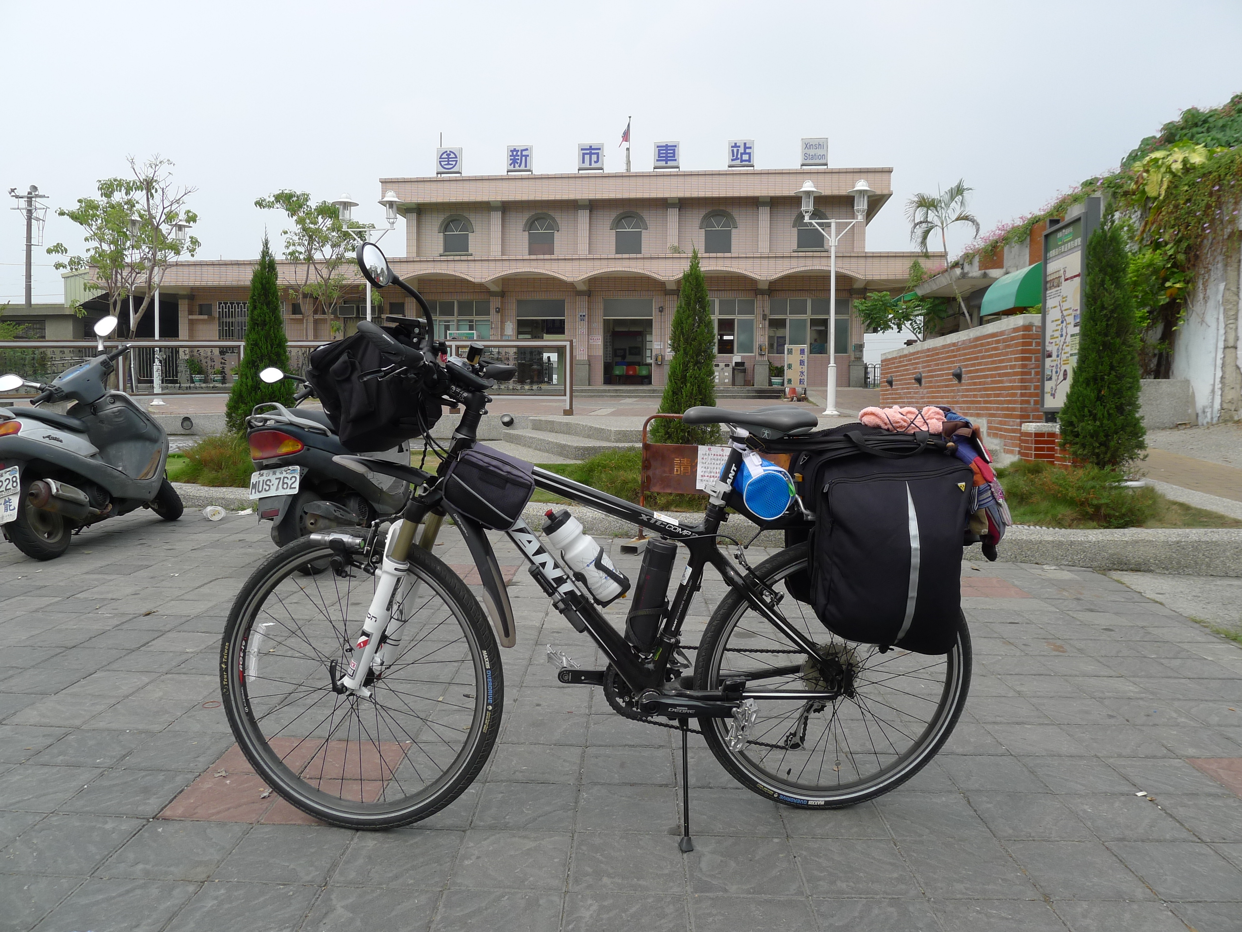 TRA Xinshi Station